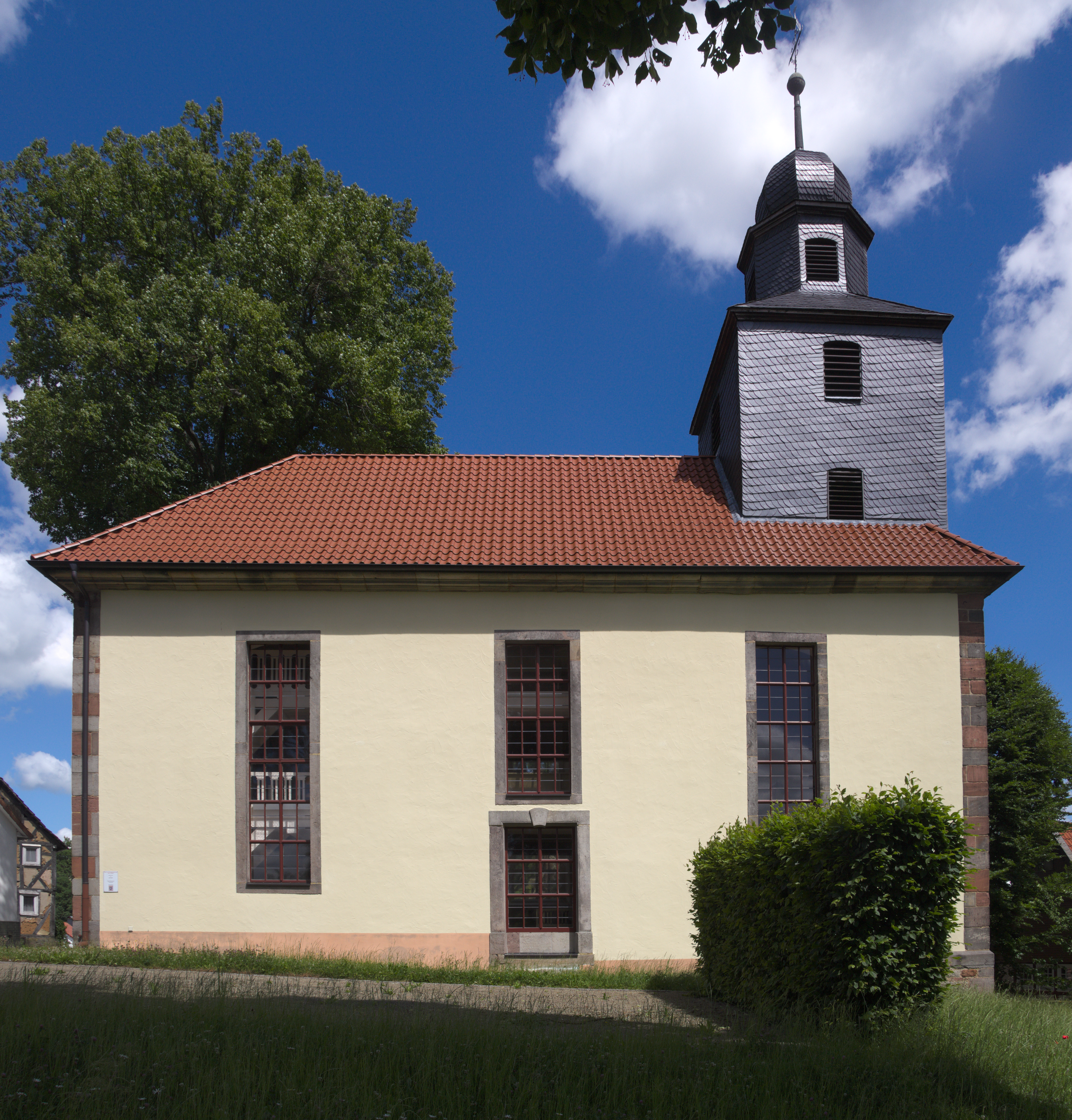 Protestant Church in Rhina, Haunetal, Hesse, Germany